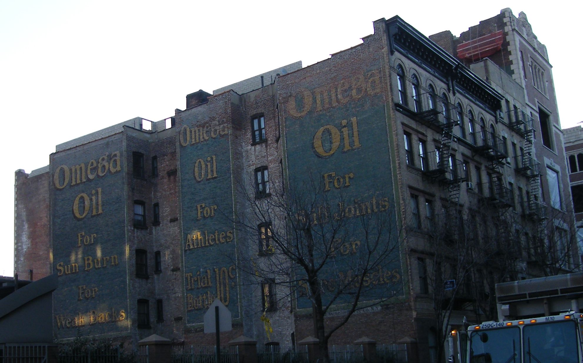 West 149th Street on National Register of Historic Places in New York City